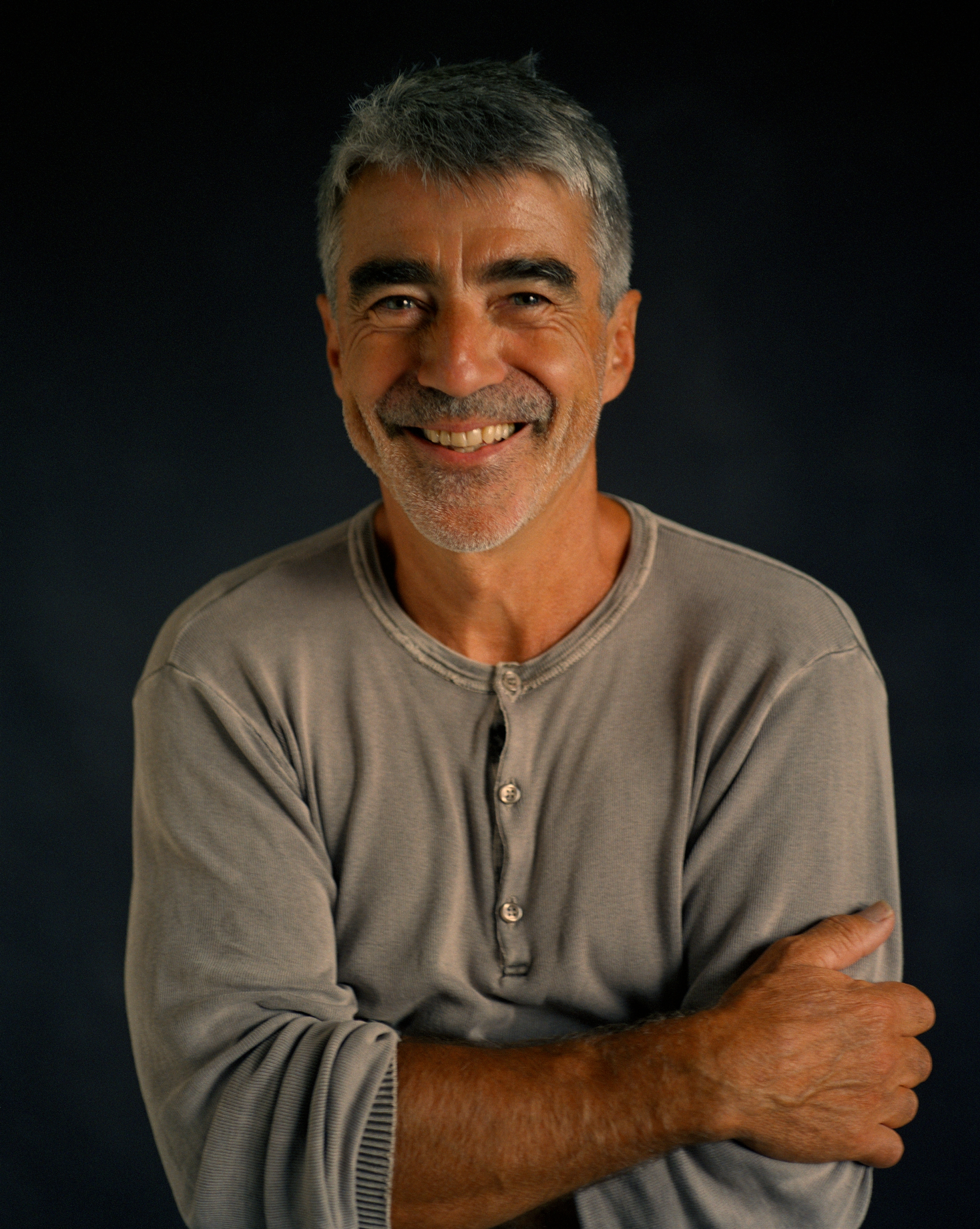 Finn Zetterholm